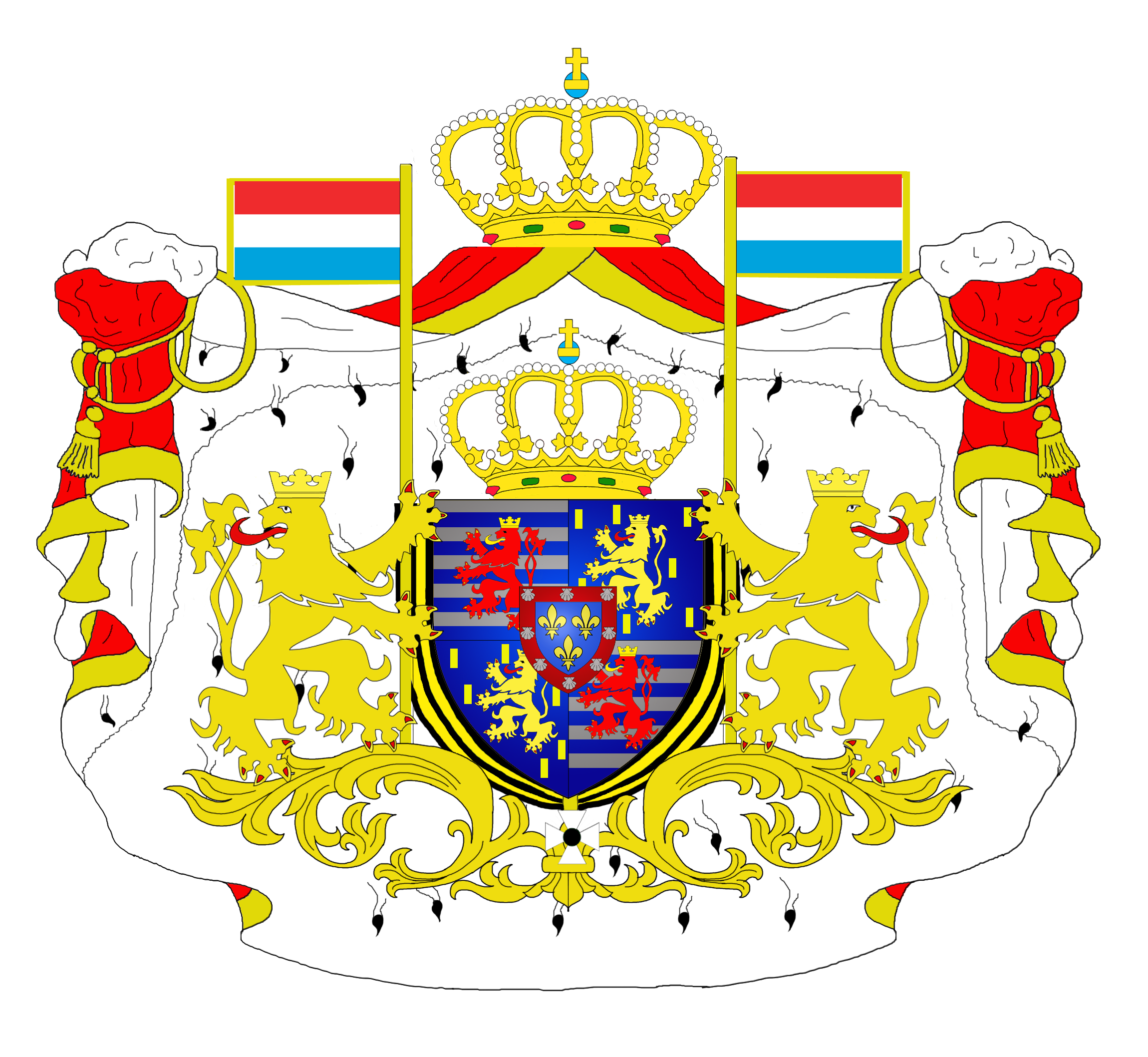 Large coat of arms of Henri I, Grand Duc of Luxembourg.